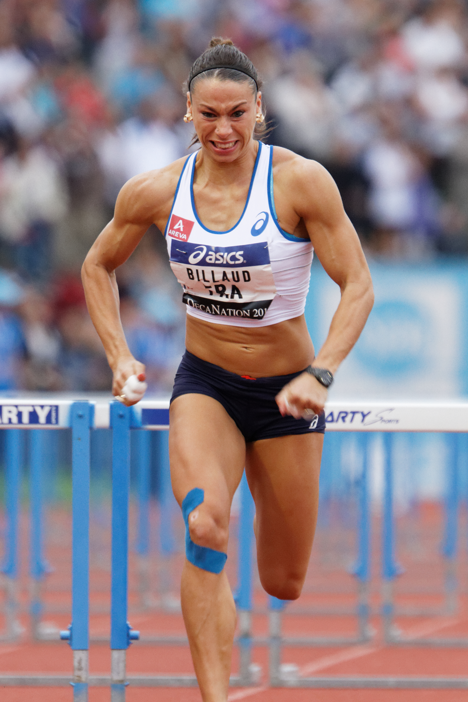 DécaNation 2014. 100m hurdles.